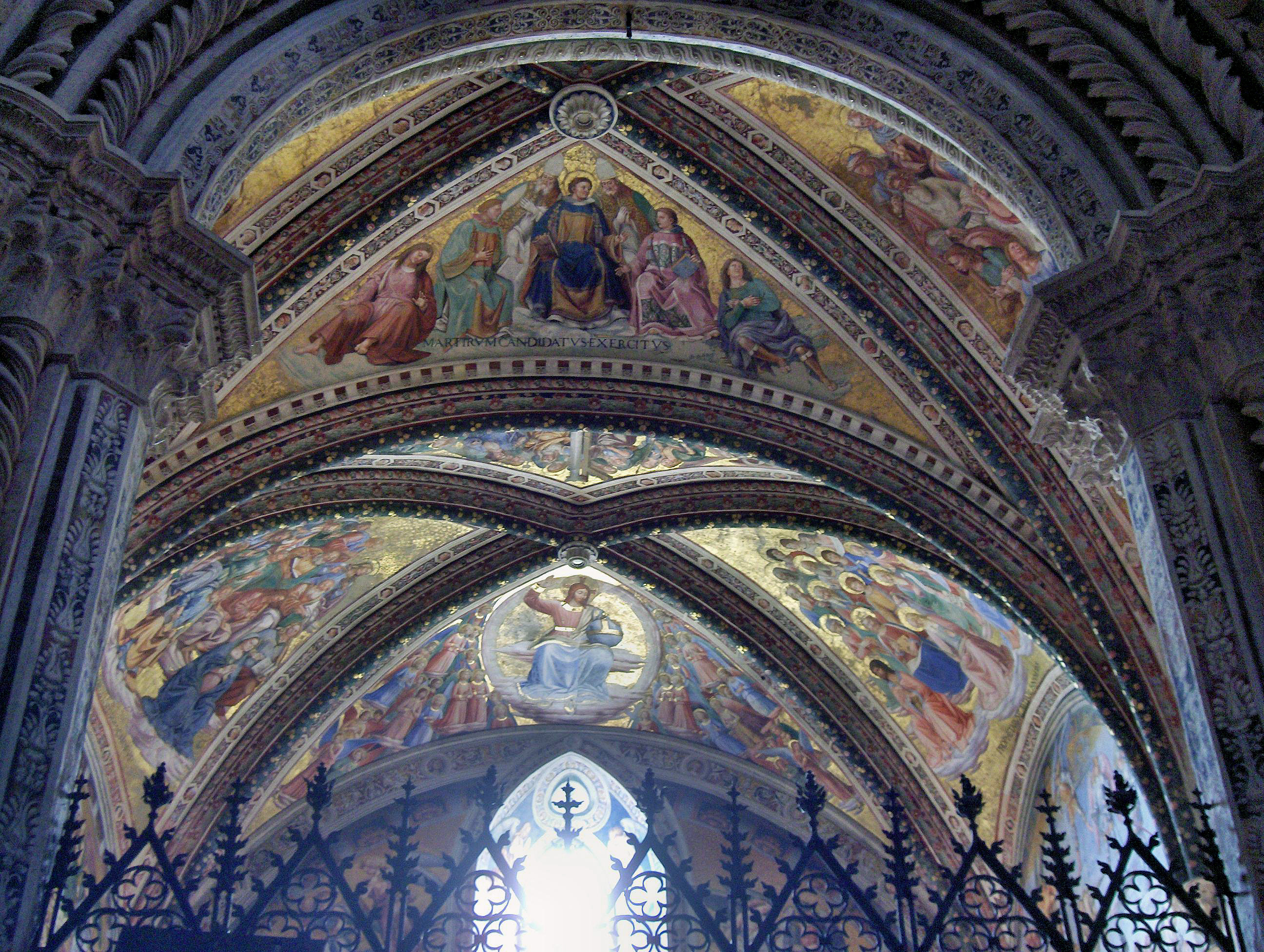 Ceiling of the San Brizio Chapel, "Christ in Judgment" by Fra Angelico and Benozzo Gozzoli (1447); others by Luca Signorelli and his school (1499-1504); Cathedral of Orvieto, Italy